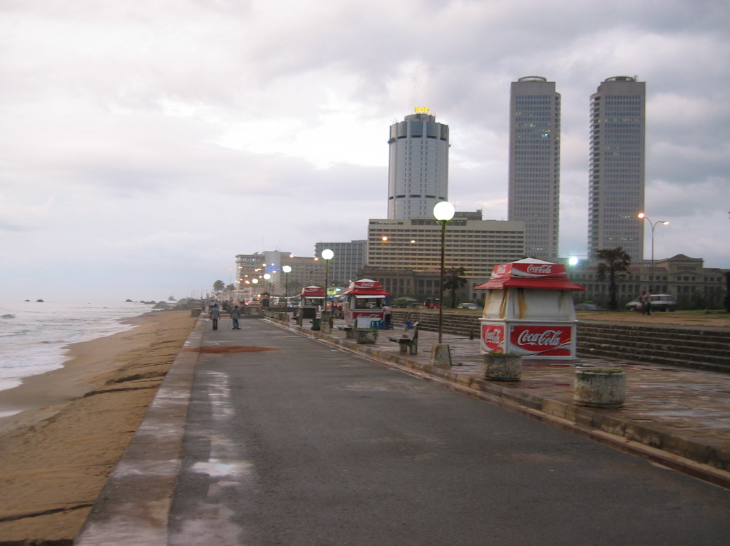 Sri Lanka, Colombo, Galle Face Green